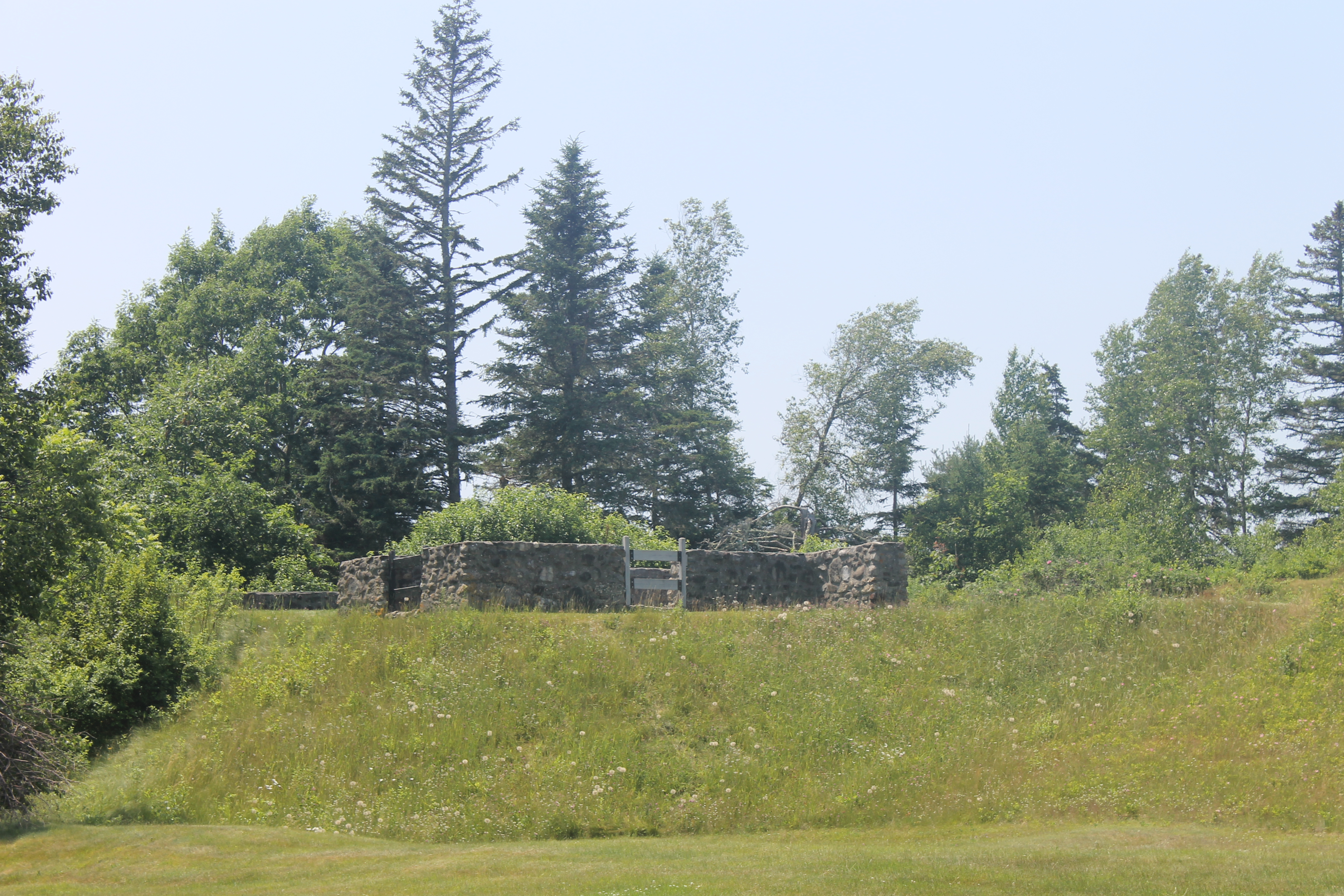 I took photo of ruins of Fort George in Castine, ME, with Canon camera.